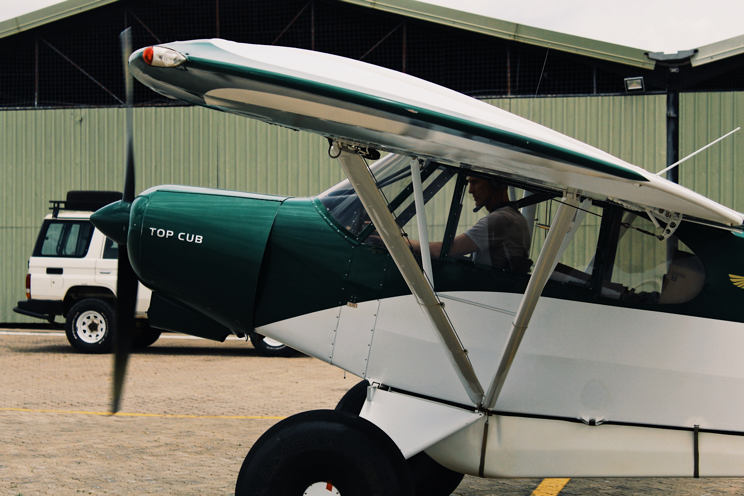 Aircrafts at Orly Airpark Kenya This is an image with the theme "Africa on the Move or Transport" from: Kenya